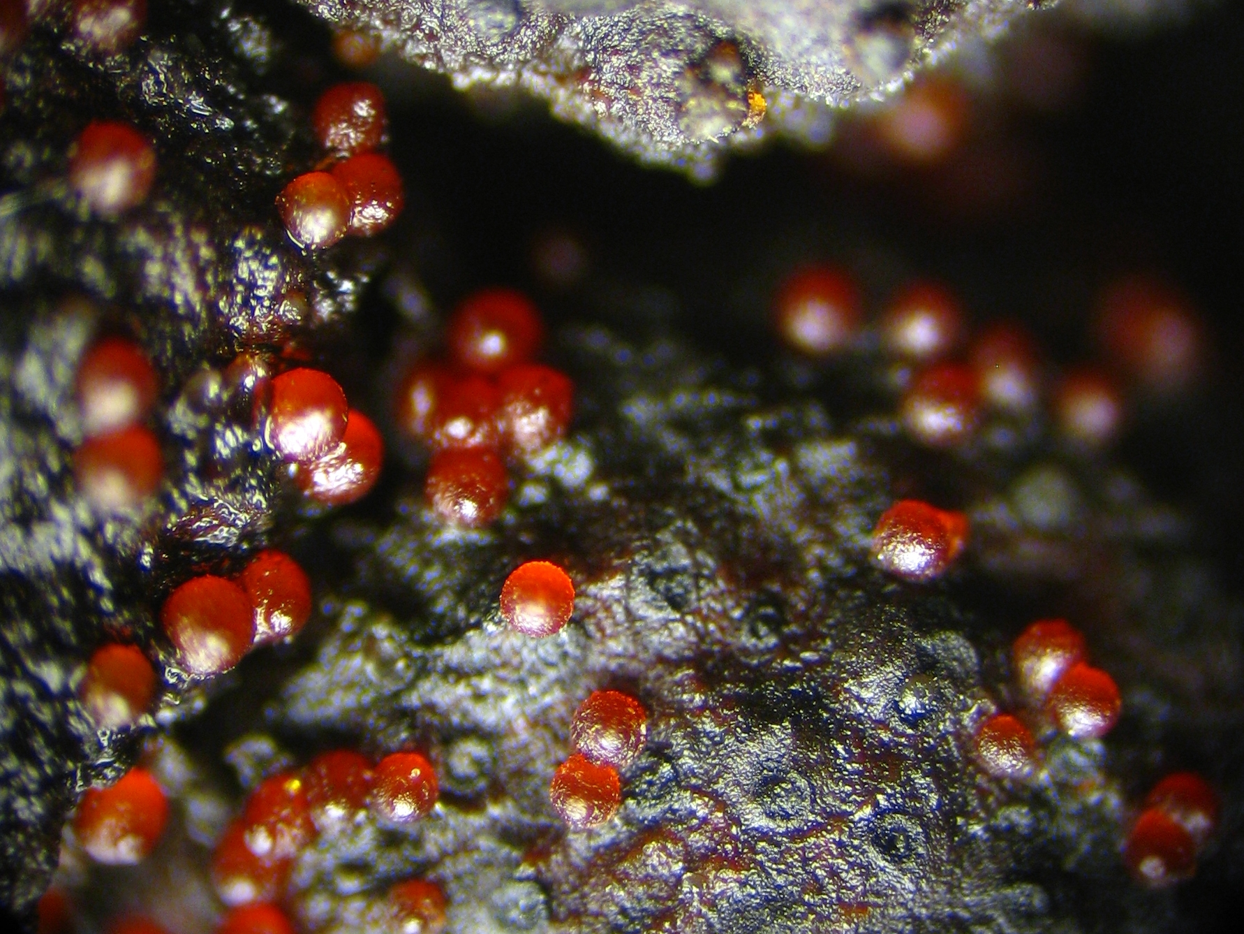 Nectria episphaeria Location: Strouds Run State Park, Athens, Ohio, USA Observation Notes: Red beads growing on Hypoxylon fragiforme. Image Notes: 40x For more information about this, see the observation page at Mushroom Observer.